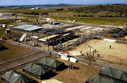 Camp X-Ray, shown here under construction, is the temporary holding facility for detainees held at U.S. Naval Base Guantanamo Bay, Cuba. Photo by Photographer's Mate 1st Class Shane T. McCoy, USN, January 2002 source